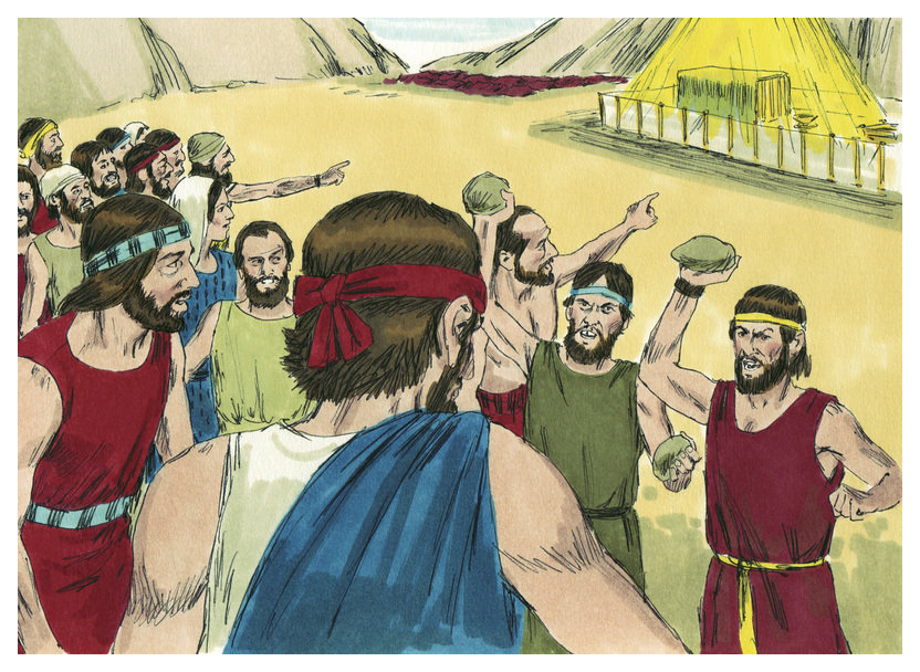 Biblical illustration of Book of Numbers Chapter 14